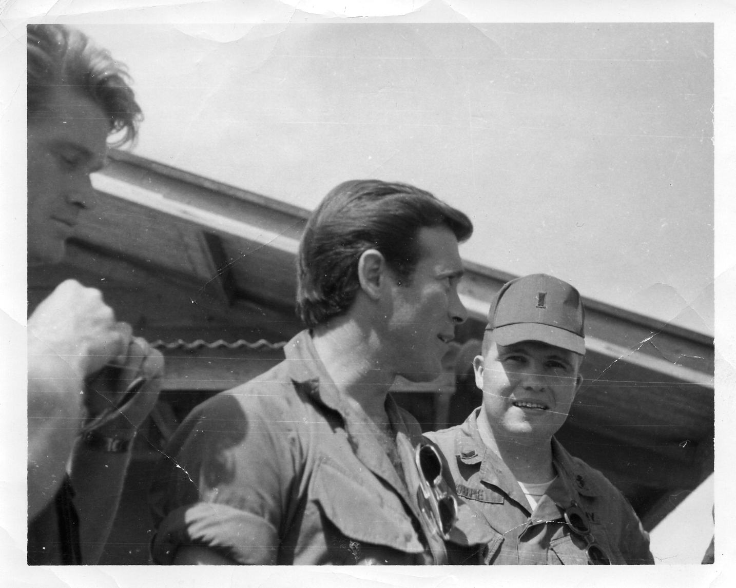 Christopher George at Bien Hoa in 1967. Scan of a slightly wrinkled photographic print with white border.